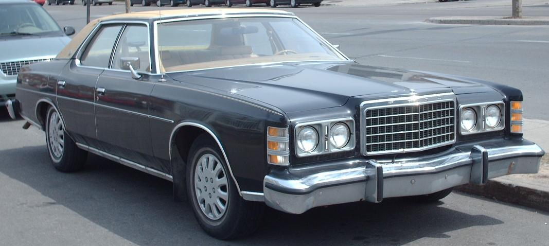 1973-1978 Ford LTD photographed in Montreal, Quebec, Canada.